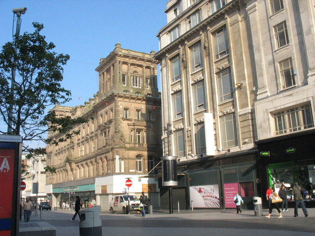 Shops in the Church Street Church Street a continuation of Lord Street, once at the very centre of Liverpool's Central Business District, is today an area in decline as is indicated by the number of closed shops. New shopping centre developments have eclipsed its role as the formost shopping area of the city.